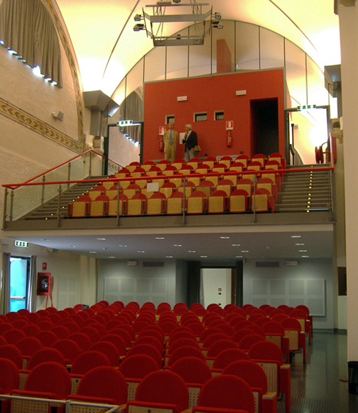 Restoration and renovation of Teatro Ruzante in Padua. Interior view.